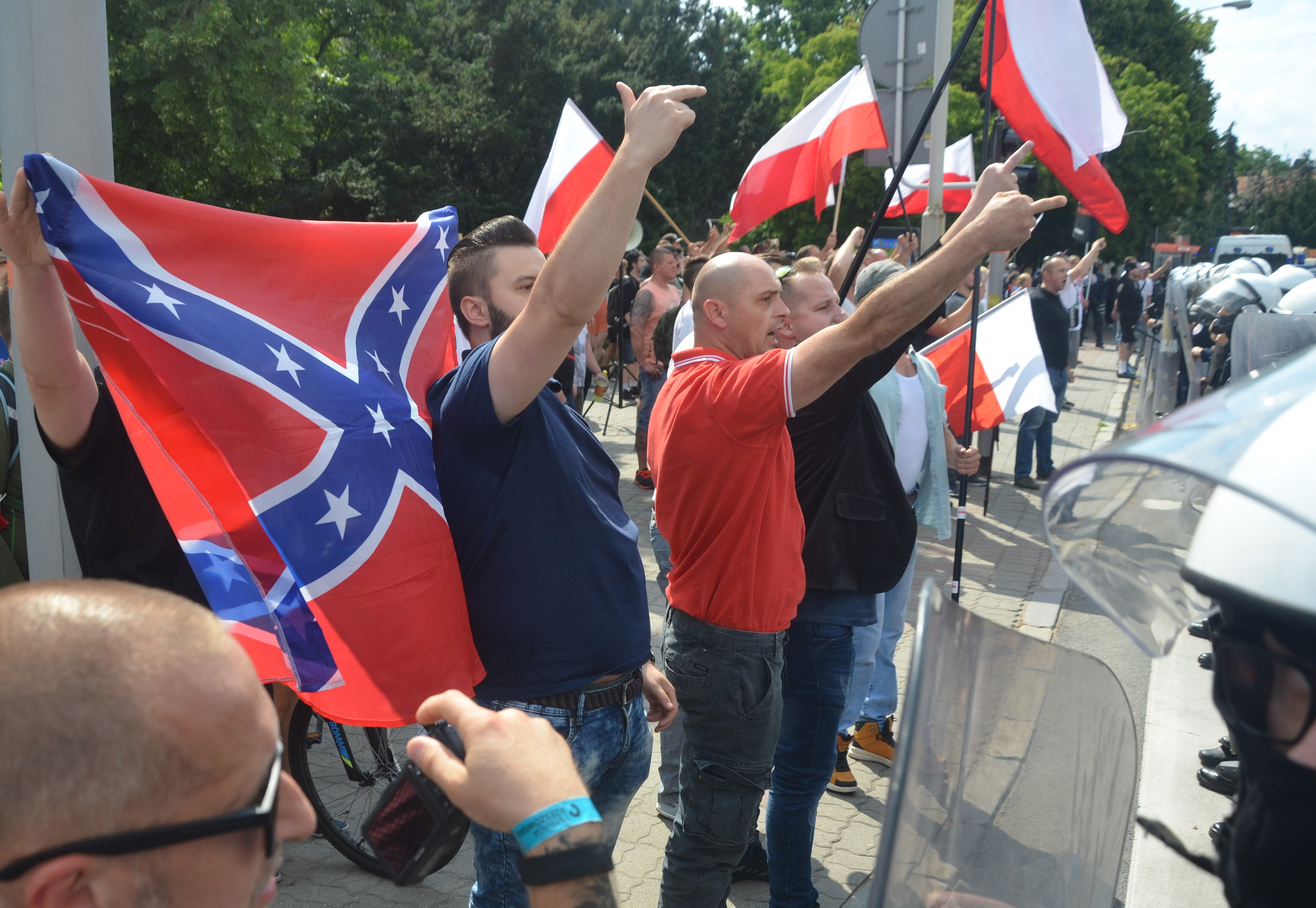 Neo-Nazis attack an LGBT rigths pride parade in Rzeszów